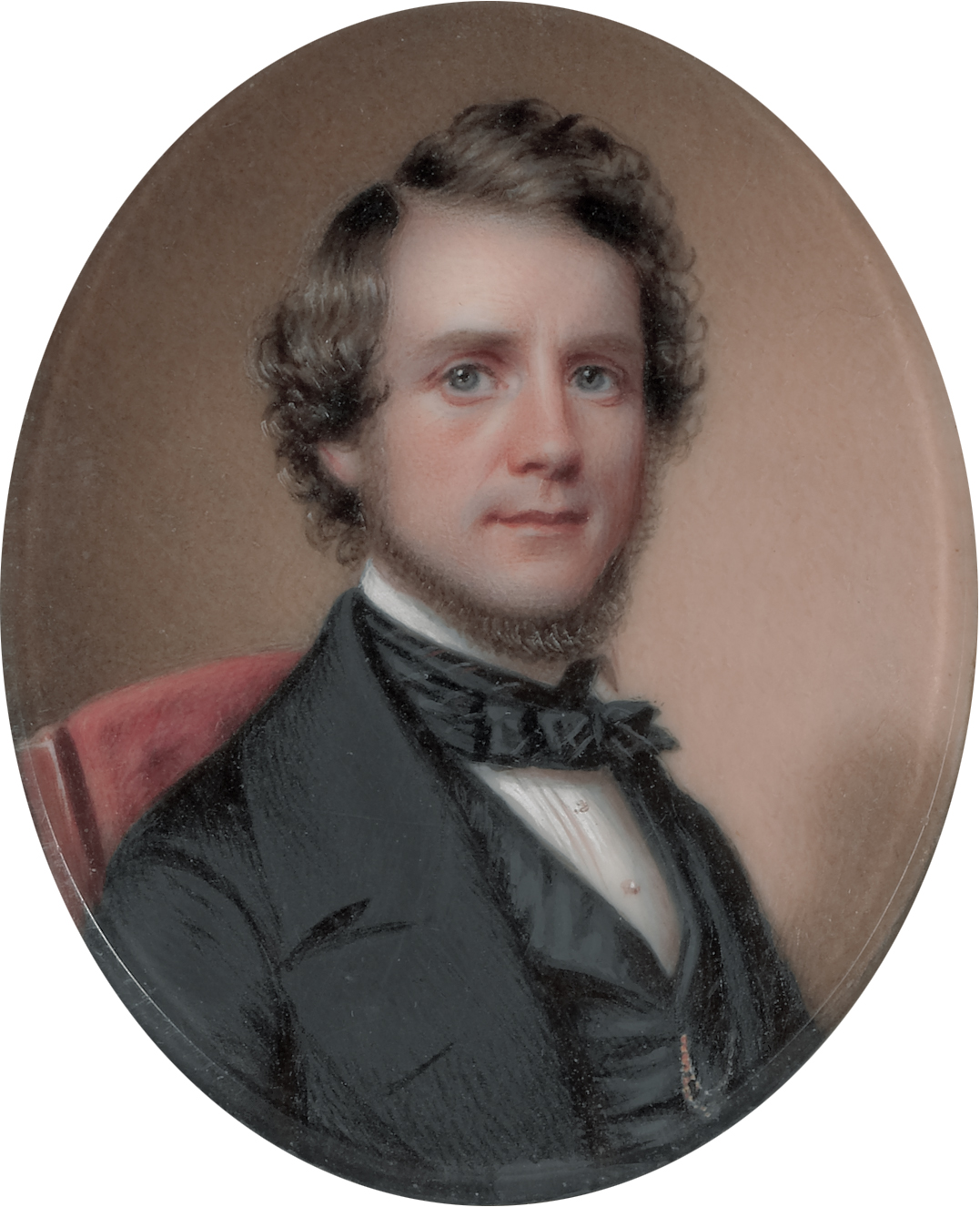 Self-portrait Watercolor on ivory 4.128 x 3.175 cm